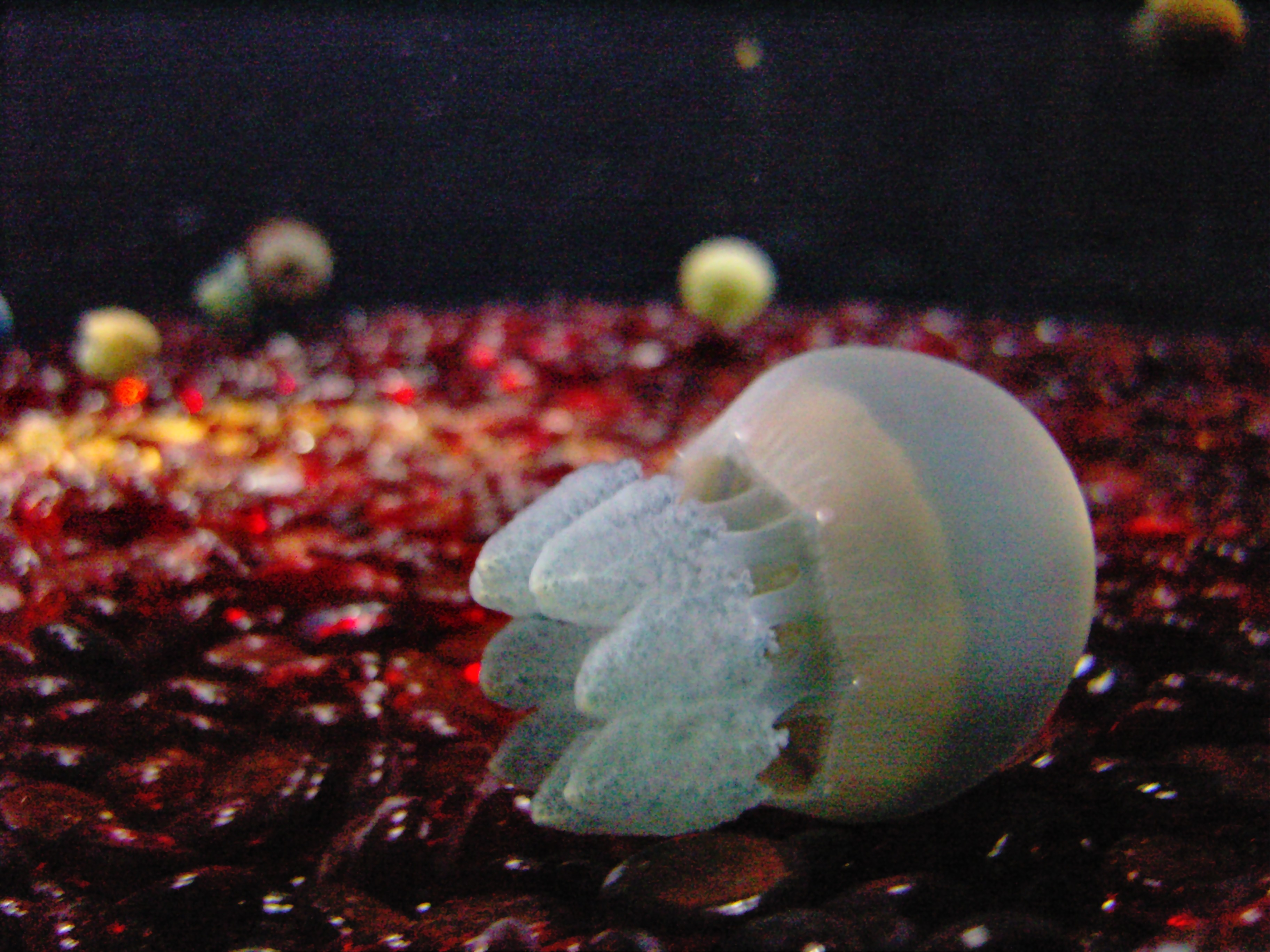 Blubber Jellyfish (Catostylus mosaicus, order Rhizostomae), Monterey Bay Aquarium, California.